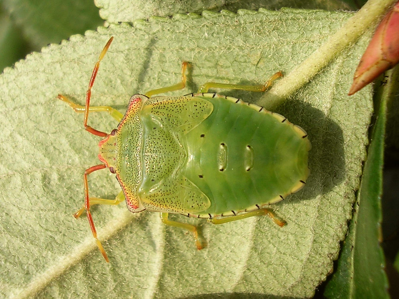 Hawthorn Shield Bug nymph; Acanthosoma haemorrhoidale Location: Hengelo, Overijssel, NetherlandsKeywords: red, green